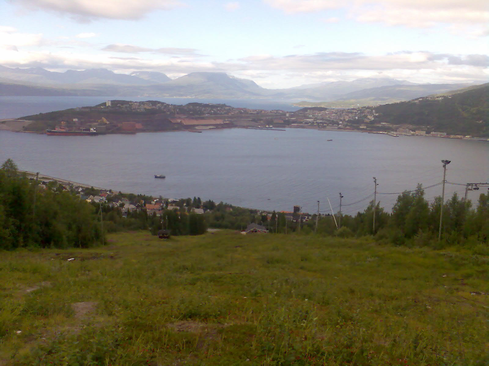 Ankenes Alpinslopes in summer. Narvik city is seen in the background.